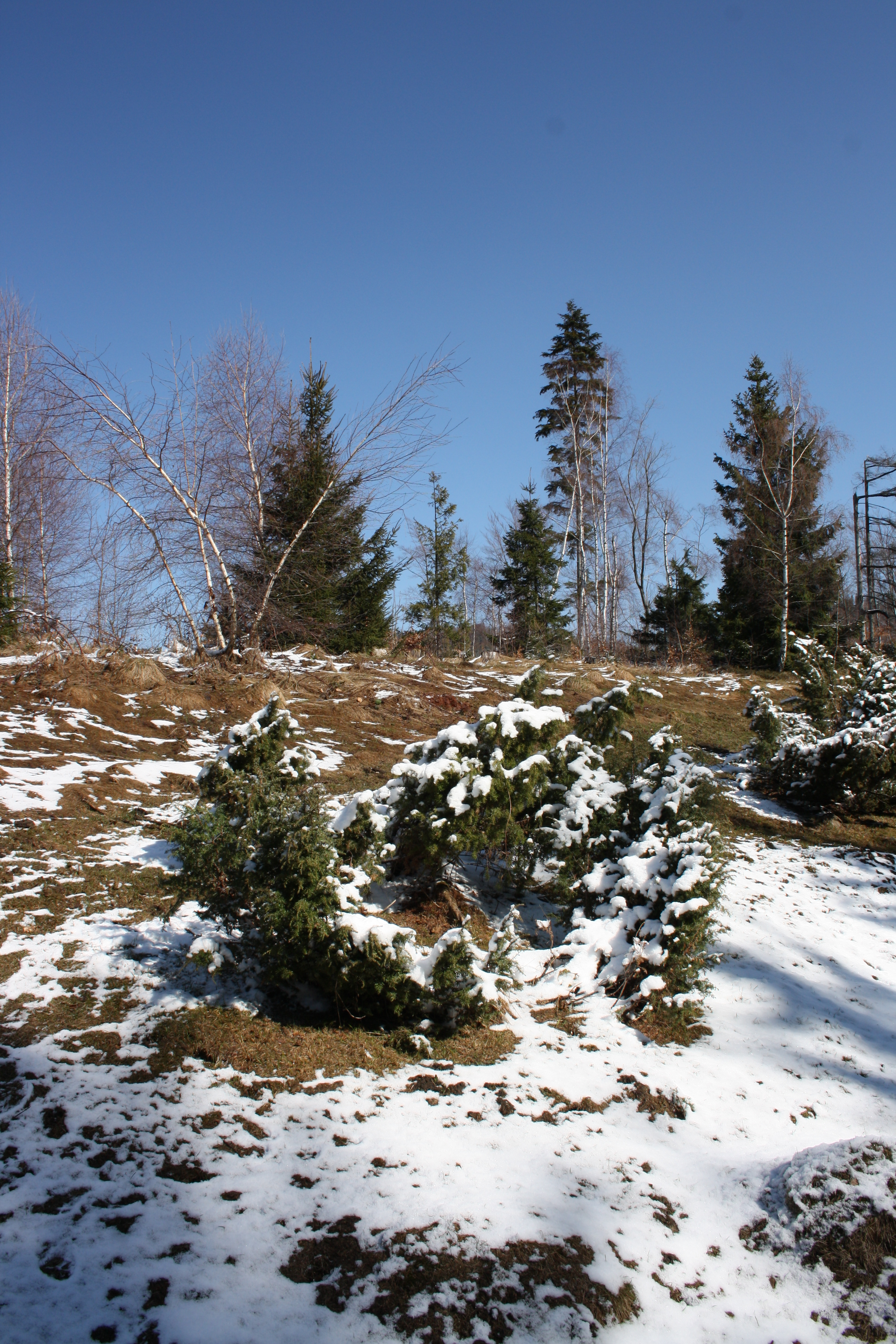 Filipka, natural monument in Frýdek-Místek District, Moravian-Silesian Region, Czech Republic This photograph was taken with a DSLR from WMCZ's Camera grant.